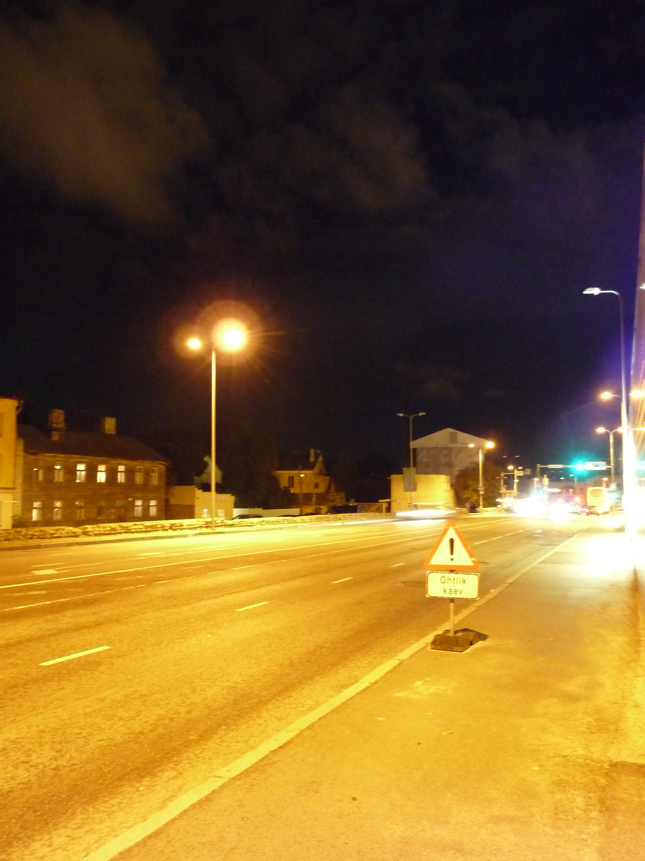 Odra street in Tallinn, Estonia